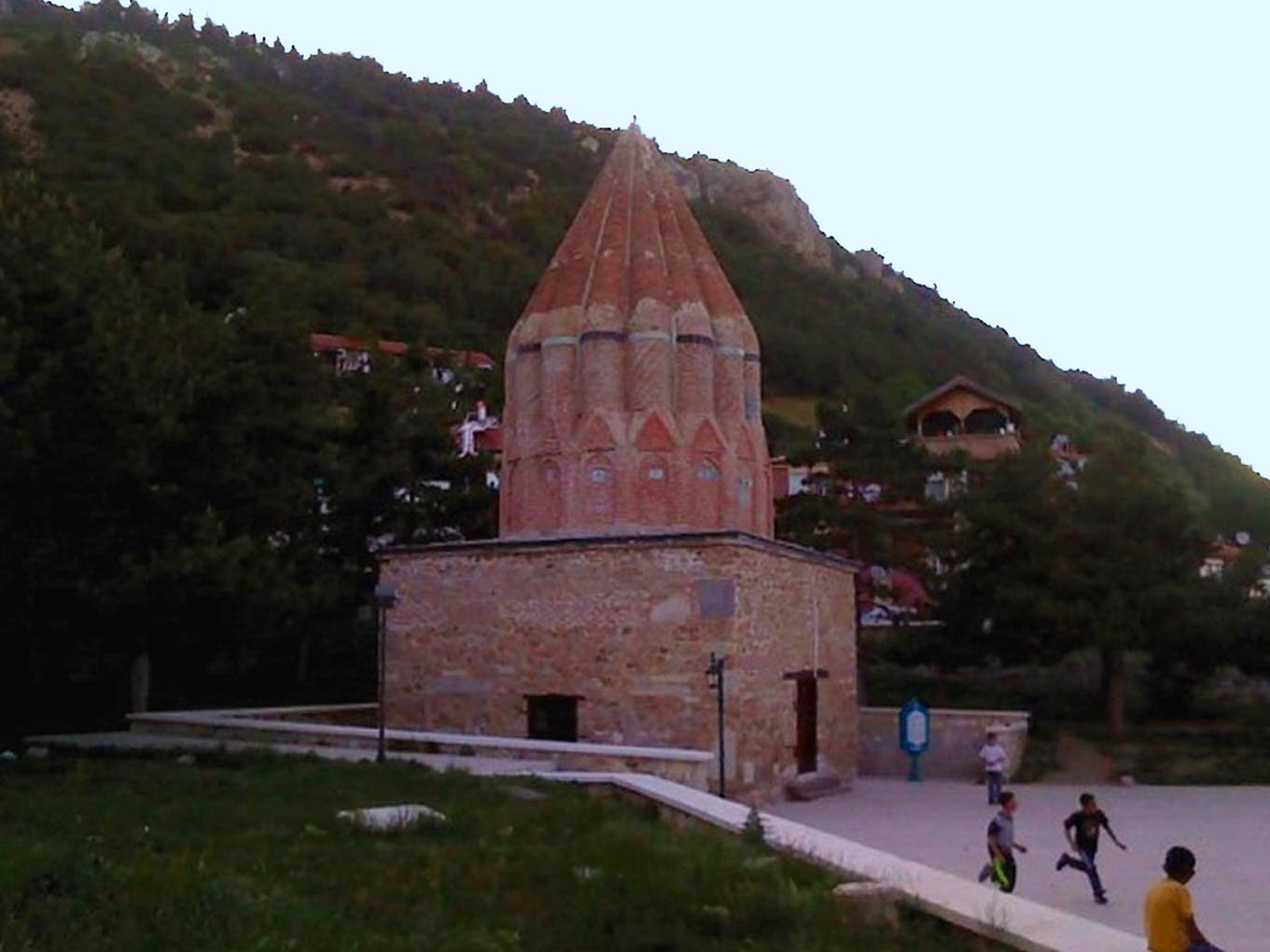 Tomb of Seydi Mahmut in Akşehir, Konya Province, Turkey